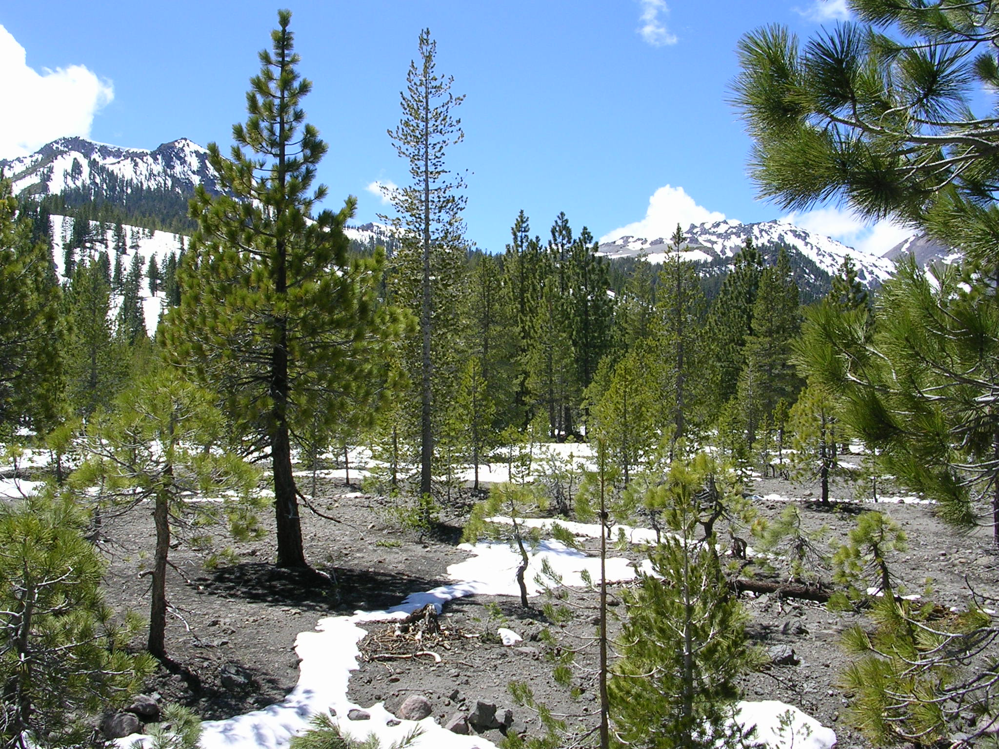 Lassen National Park. The Devastated Area, looking west. The peaks are probably Crescent Crater on the left, Chaos Crags on the right. Mixed conifer forest with Pinus jeffreyi (long needles) and Pinus monticola (short needles).